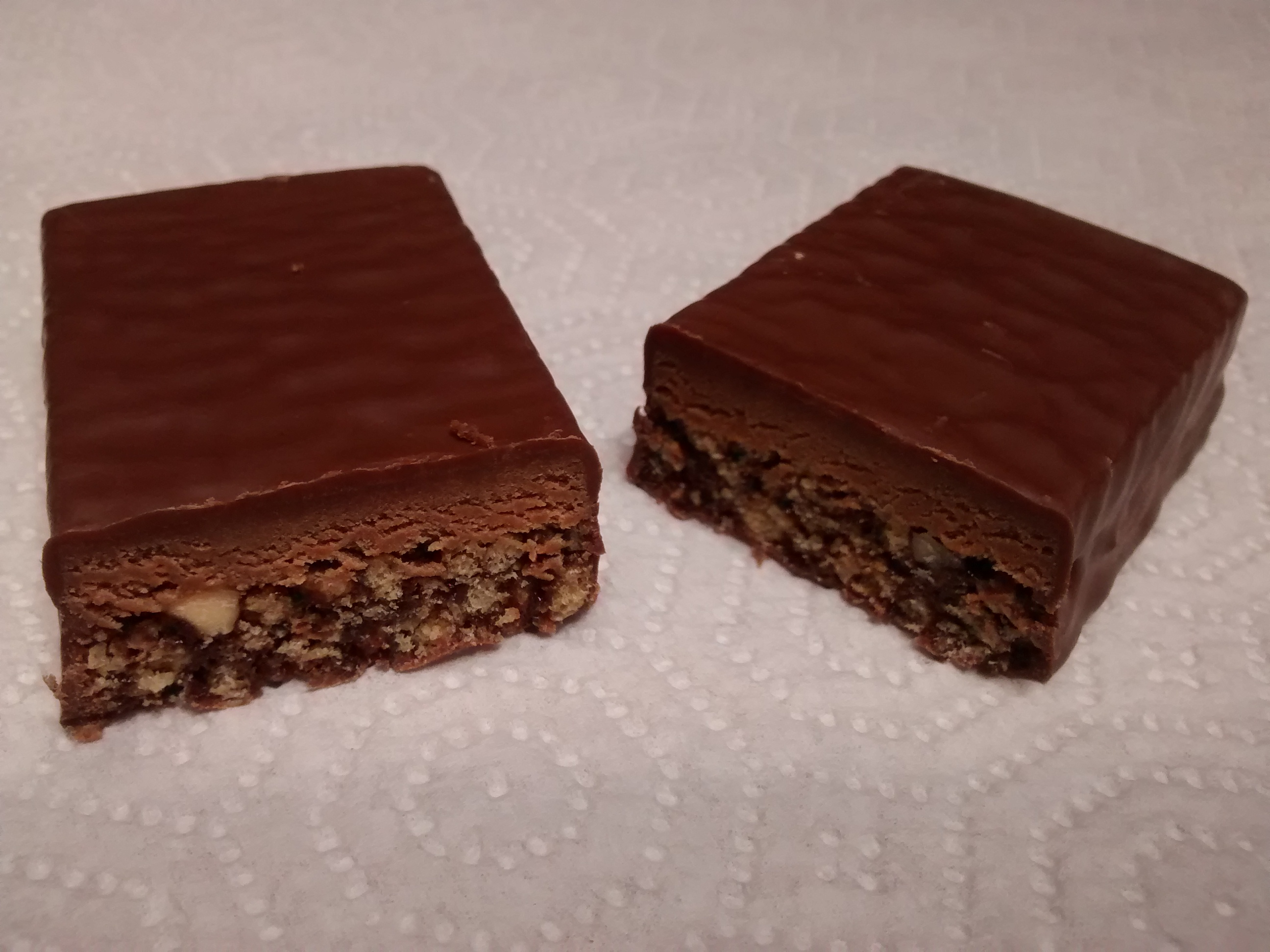 Clif Chocolate Mint Builder's Bar made by Clif Bar & Company